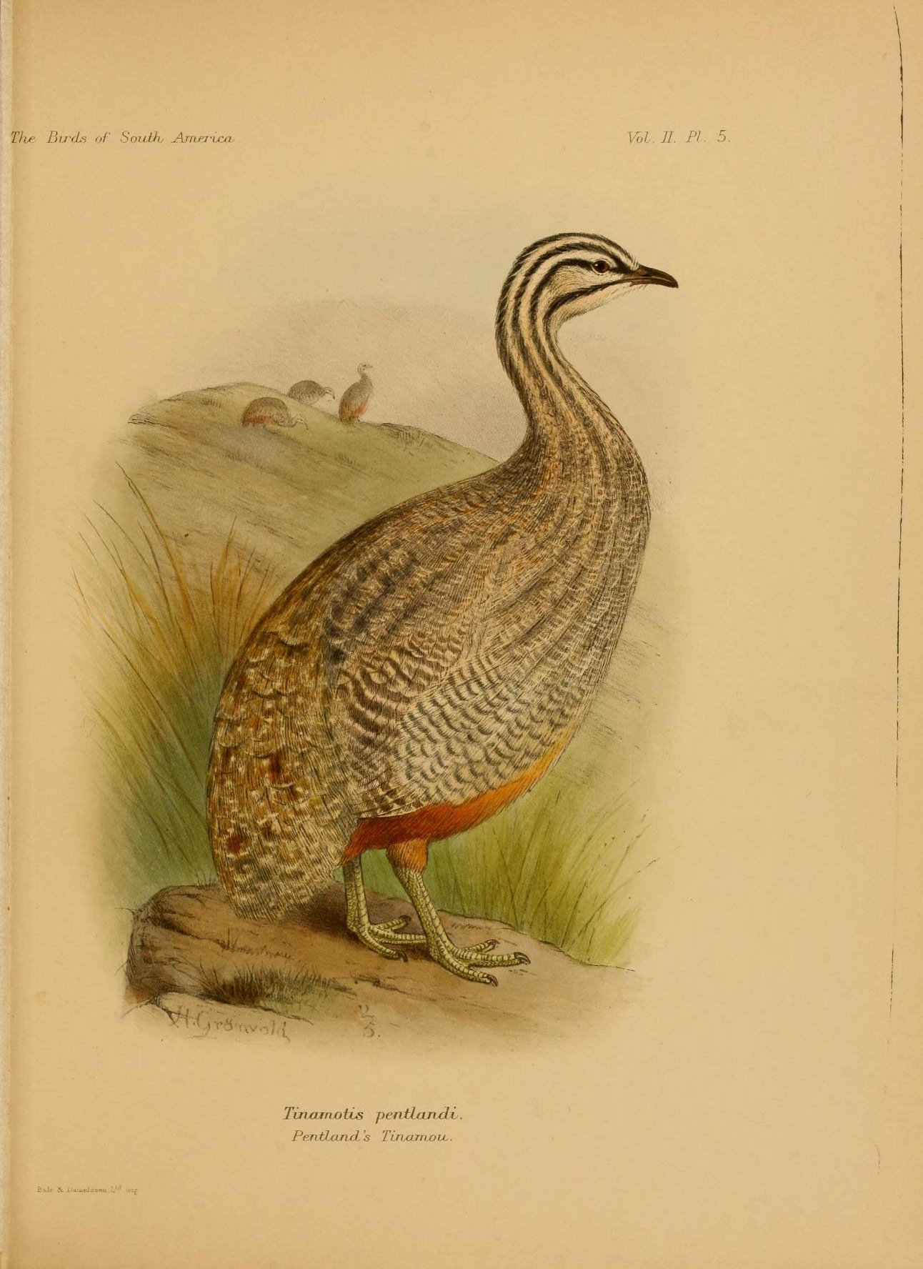 TU/' Birds di' Soutih Amn-um Vol. II. pr 5. Tinanwtis pentLandv. Pen.tLancL 's Tixvamo u. . c iJAiueJtiiMu) . .